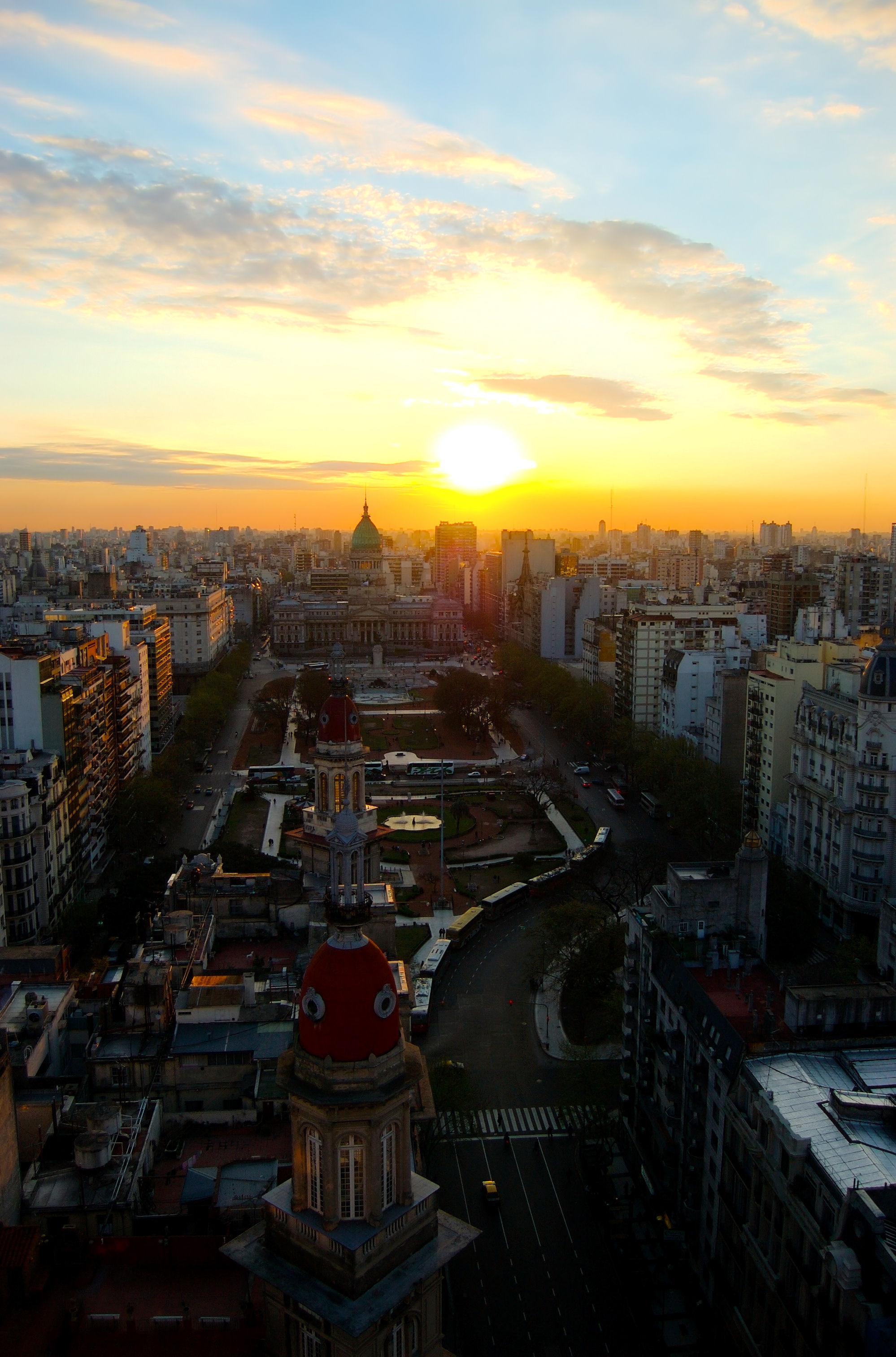 Sunset in Buenos Aires from the top of Palacio Barolo. It was also the first day of Spring 2007.